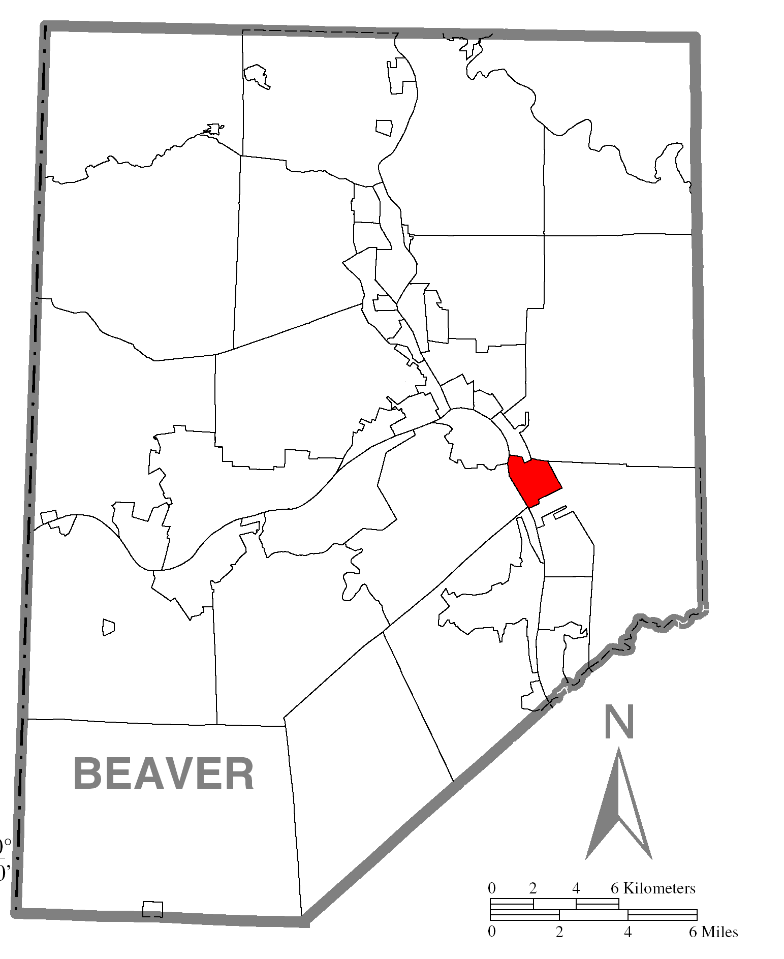 A map of Beaver County showing Conway, Pennsylvania (alternate) highlighted on the map.